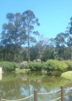 Vegetación típica de La Calera